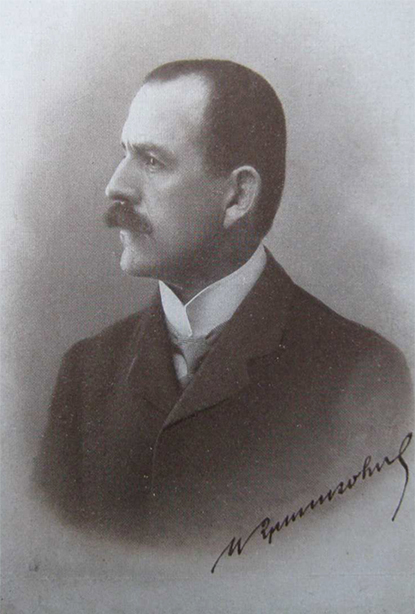 Photo of Serbian politician Milorad Drašković.